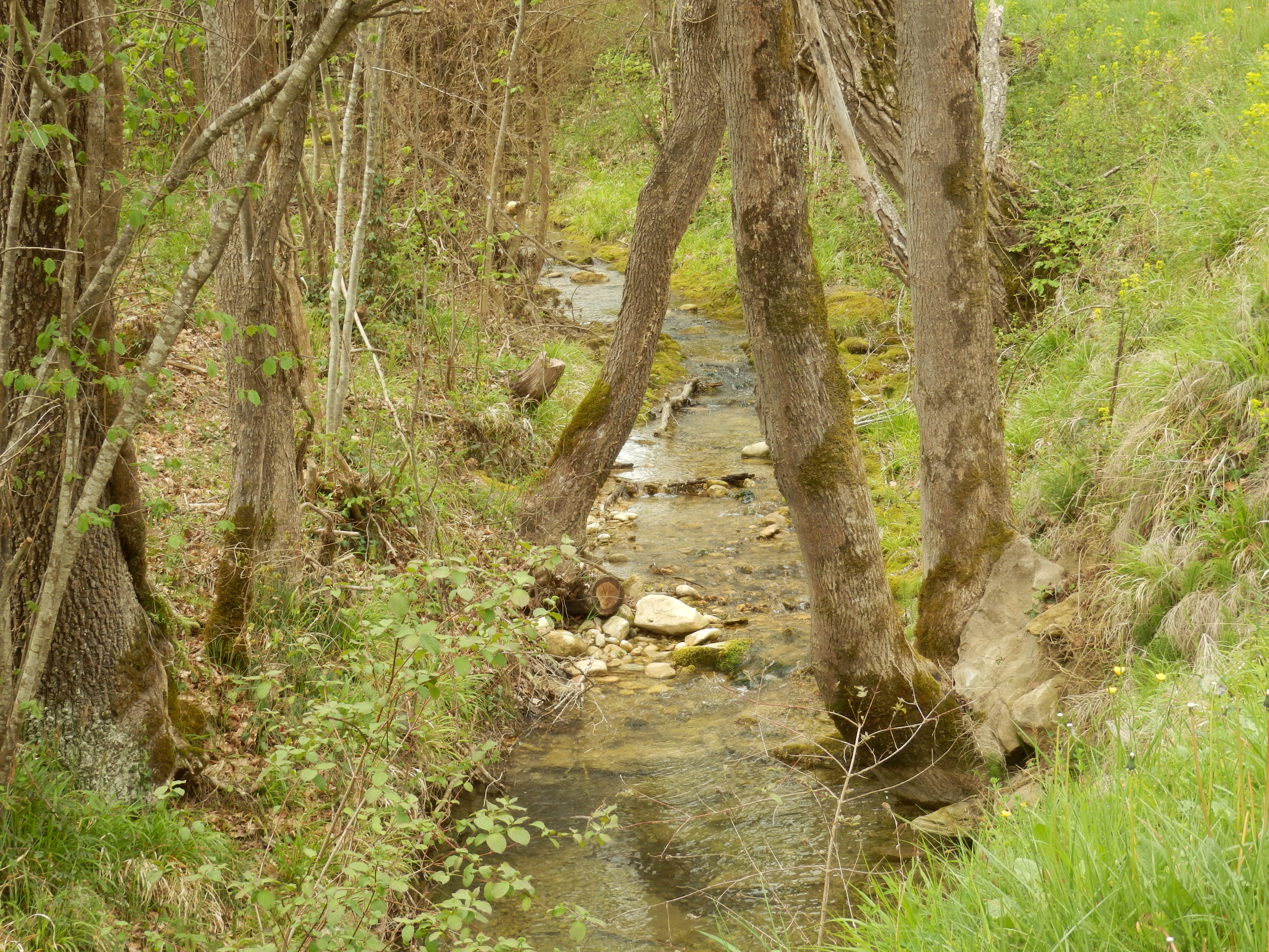 Ruisseau de Bourigeole, Bourigeole, Aude, France